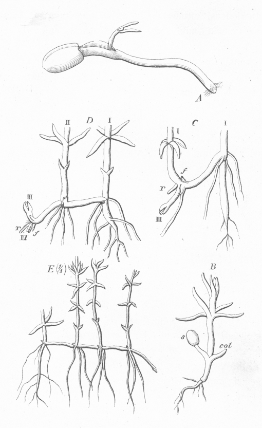 Hippuris vulgaris A, germinating seed. B, older seedling. C, The shoot from the primary axis goes down in the soil, has two leaves on the first segment (f); from one of these starts shoot III; r, an auxillary root. Then a three-leaved whorl. D, even older seedling; The third whorl on the primary shoot has four leaves; the third whorl on the secundary shoot has three leaves; four shoot generations are present. E, a seedling with five shoot generations.